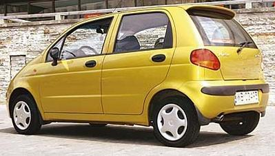 Daewoo Matiz from Polish Wikipedia.